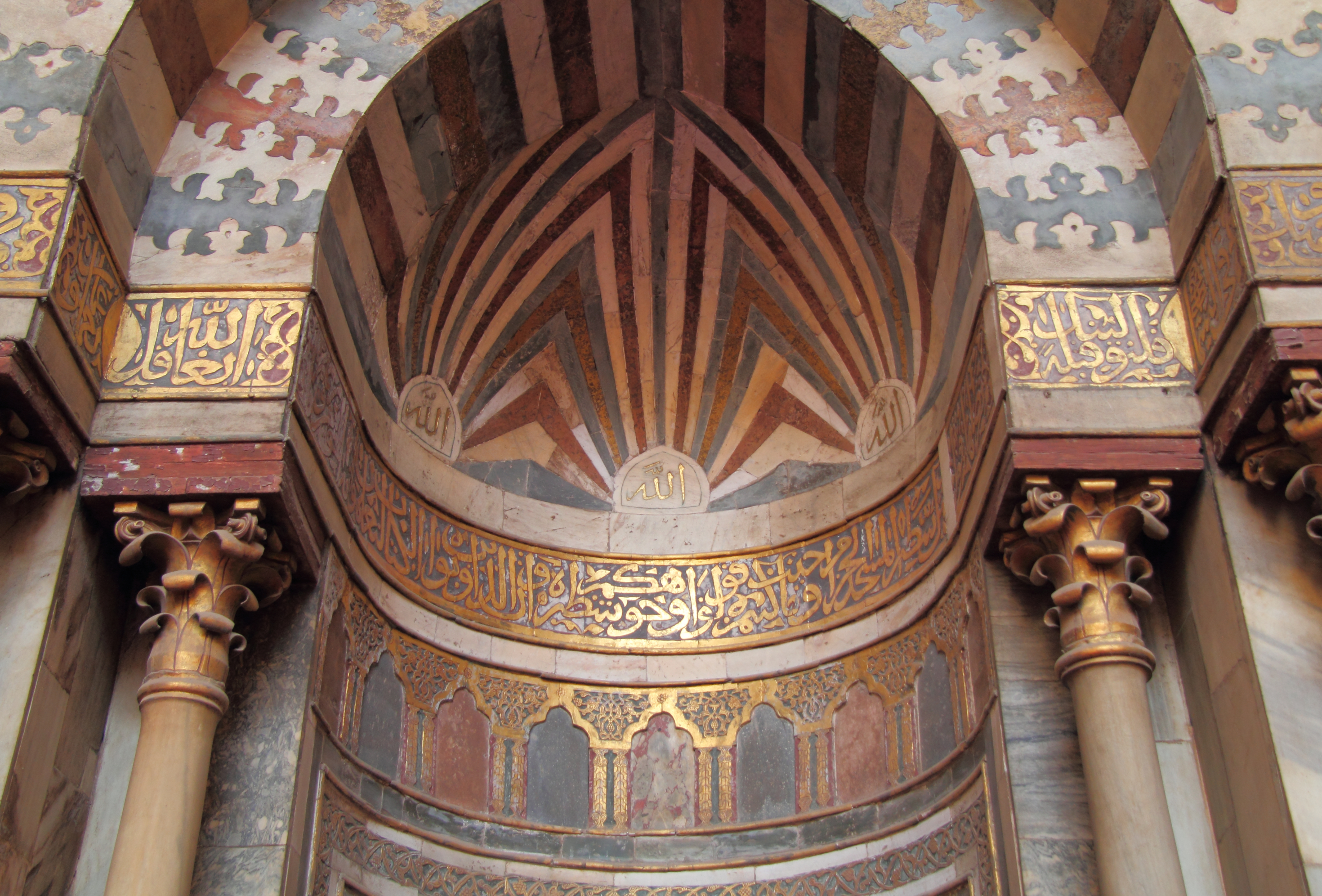 Cairo, Egypt: Mosque-Madrassa of Sultan Hassan